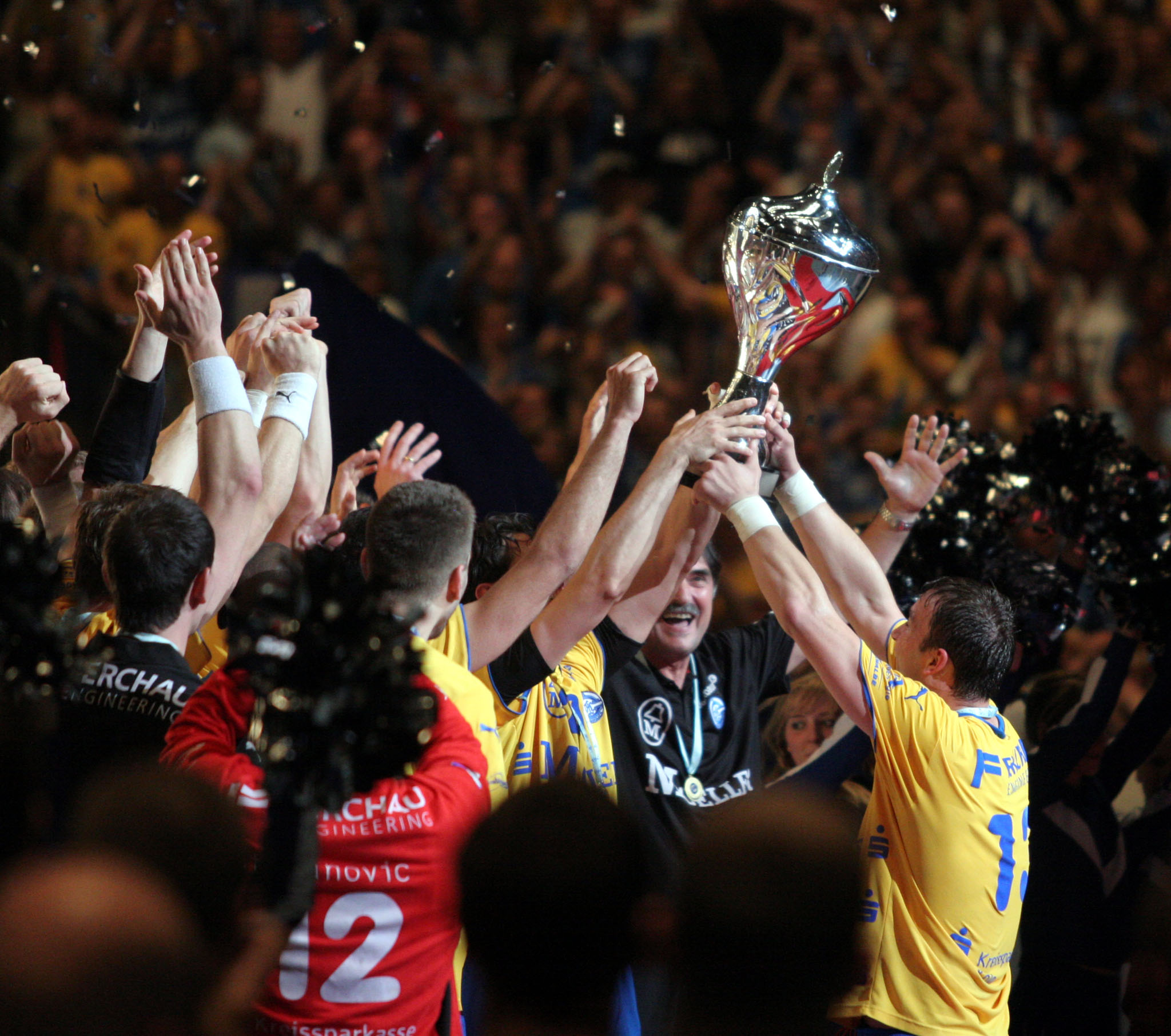 The award ceremony of VfL Gummersbach winning the EHF Cup 2008/2009 on June 1st 2009 in Cologne´s Lanxess arena.